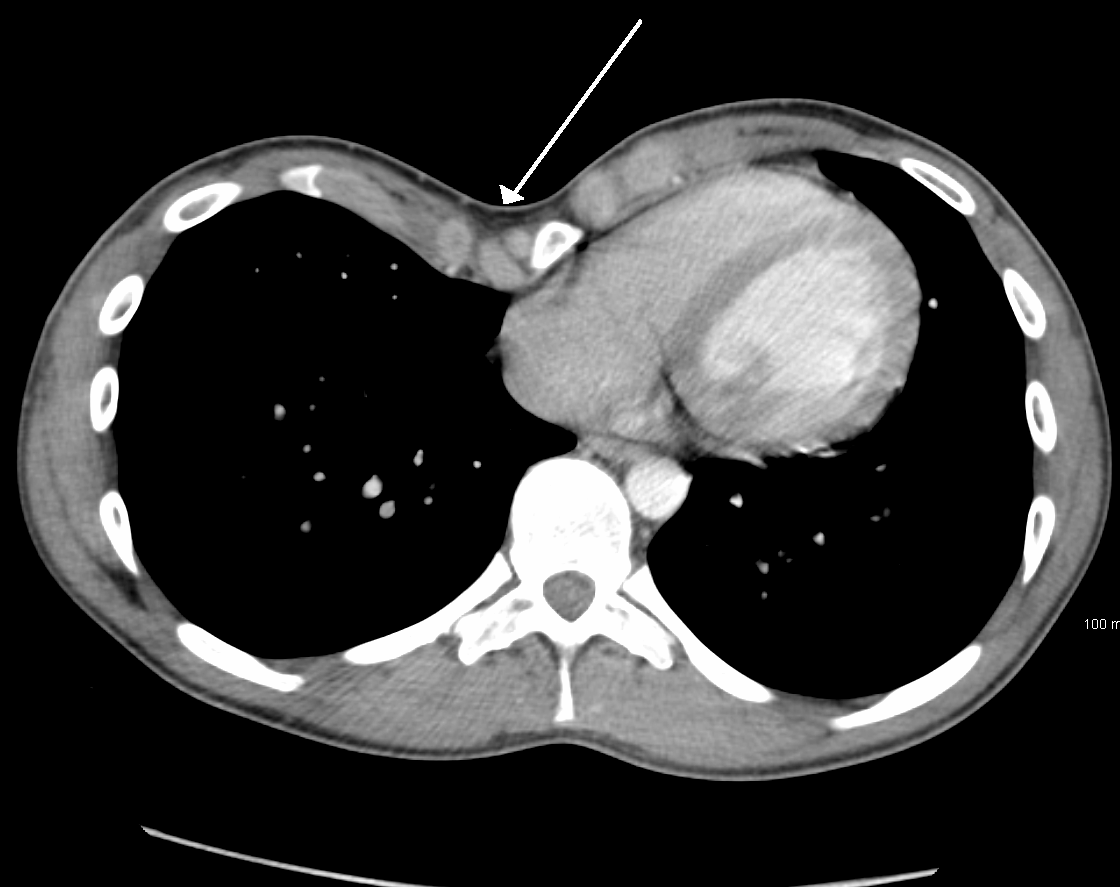 Pectuus excavatum